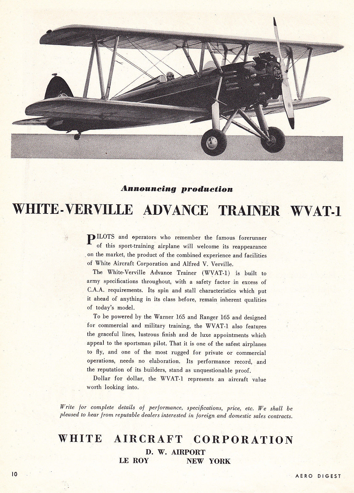 White-Verville Advanced Trainer 1 (WVAT-1) Advertisement. 1939. White Aircraft Corporation, Le Roy, New York